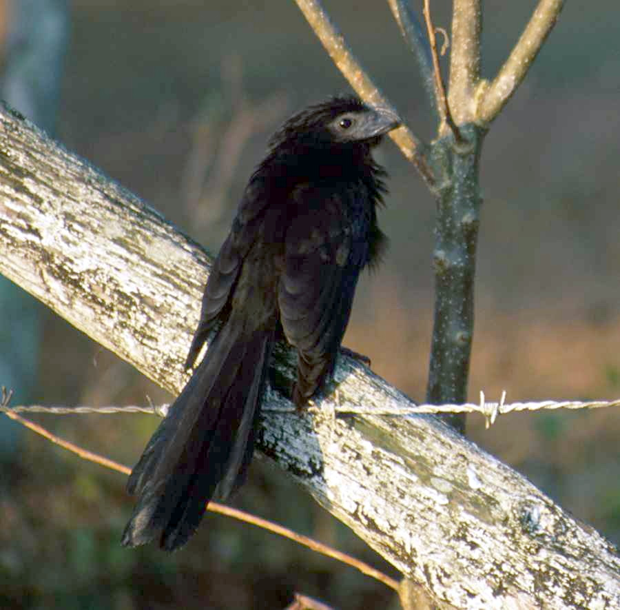 Groove-billed Ani (Crotophaga sulcirostris), Maui, Hawaii.